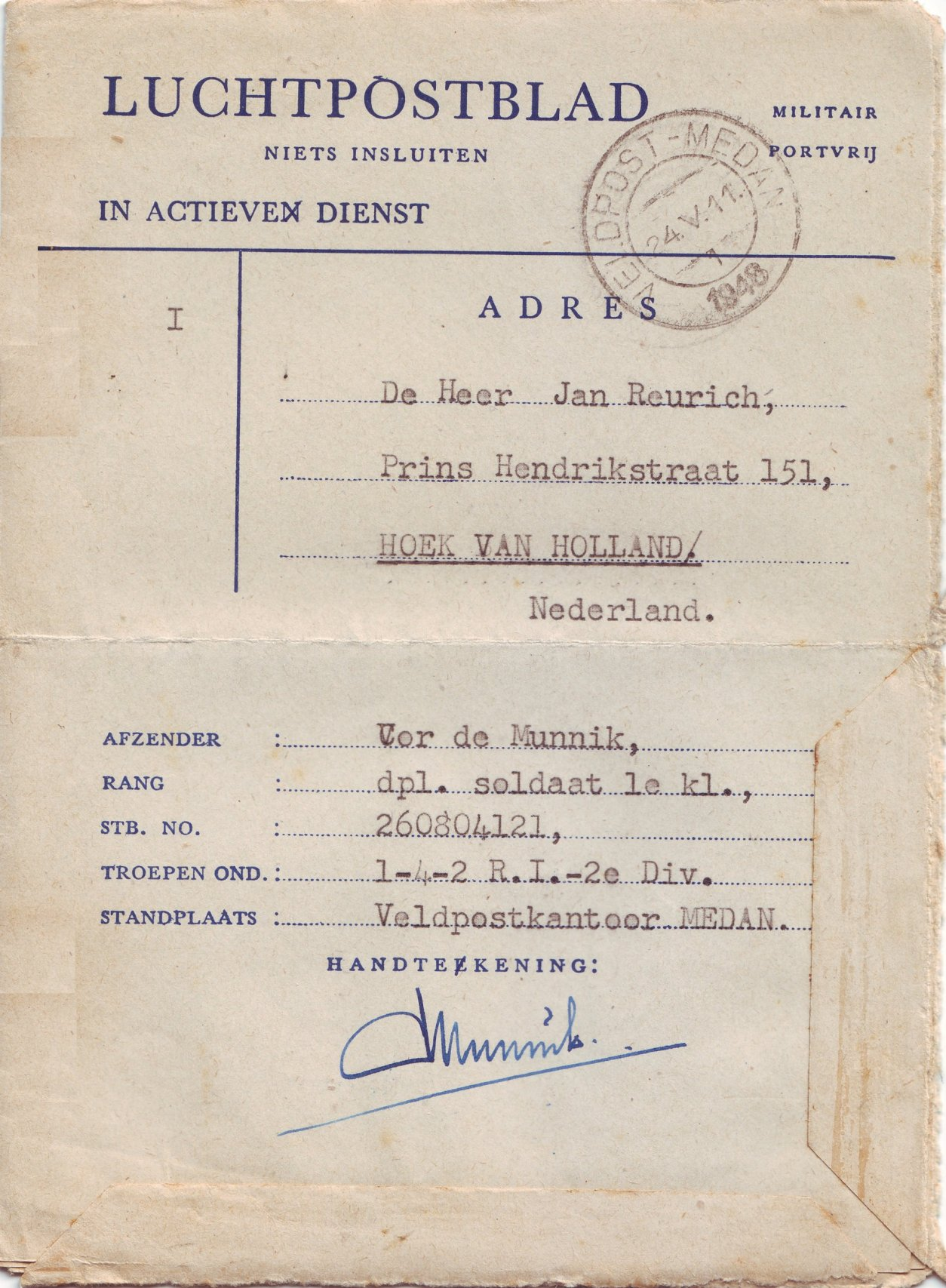 Field post aerogram, sent by a Dutch soldier fighting in Indonesia to a friend in Hook of Holland through the field post office in Medan, 24 May 1948